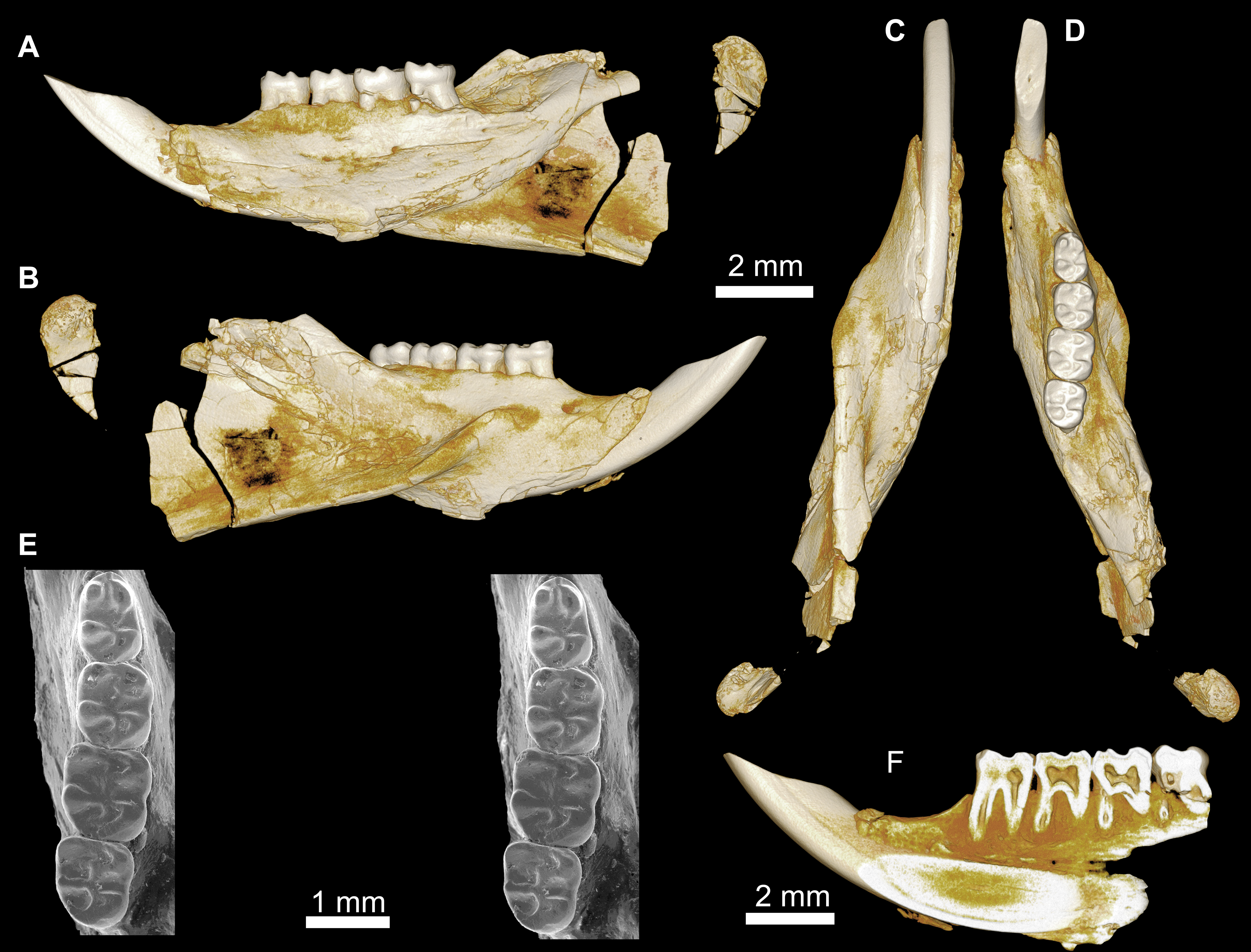 Birkamys, lower dentition of Birkamys korai, A-F: DPC 22737 left mandible with dP4-M3, in A: medial, B: lateral, C: ventral and D: dorsal views; E: scanning electron stereopair illustrating the occlusal surfaces of dP4-M3; F: cross-section through tooth roots, illustrating the deep roots of the dP4 in cross-section; locality L-41, Jebel Qatrani Formation, Fayum, northern Egypt, latest Eocene